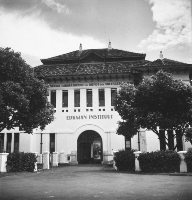 The Eijkman Institut in Weltevreden, Batavia